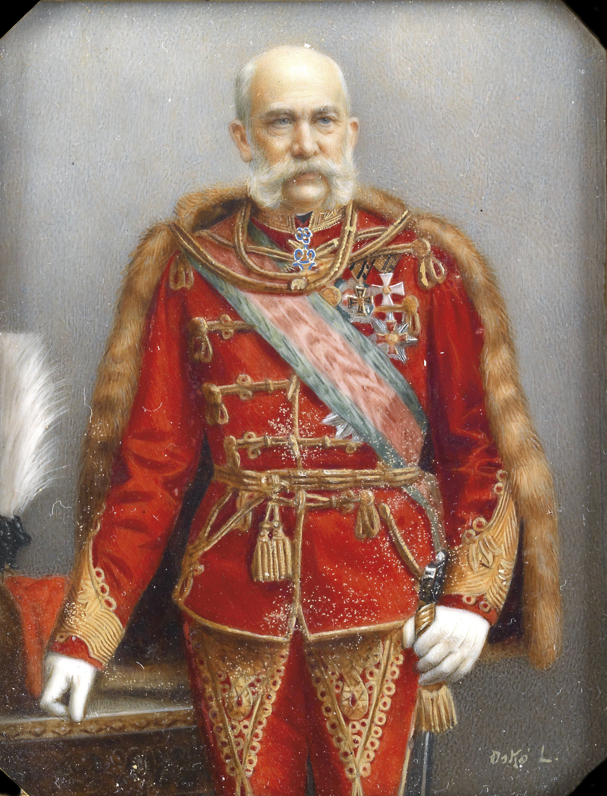 Portrait of Franz Joseph I of Austria (1830-1916)